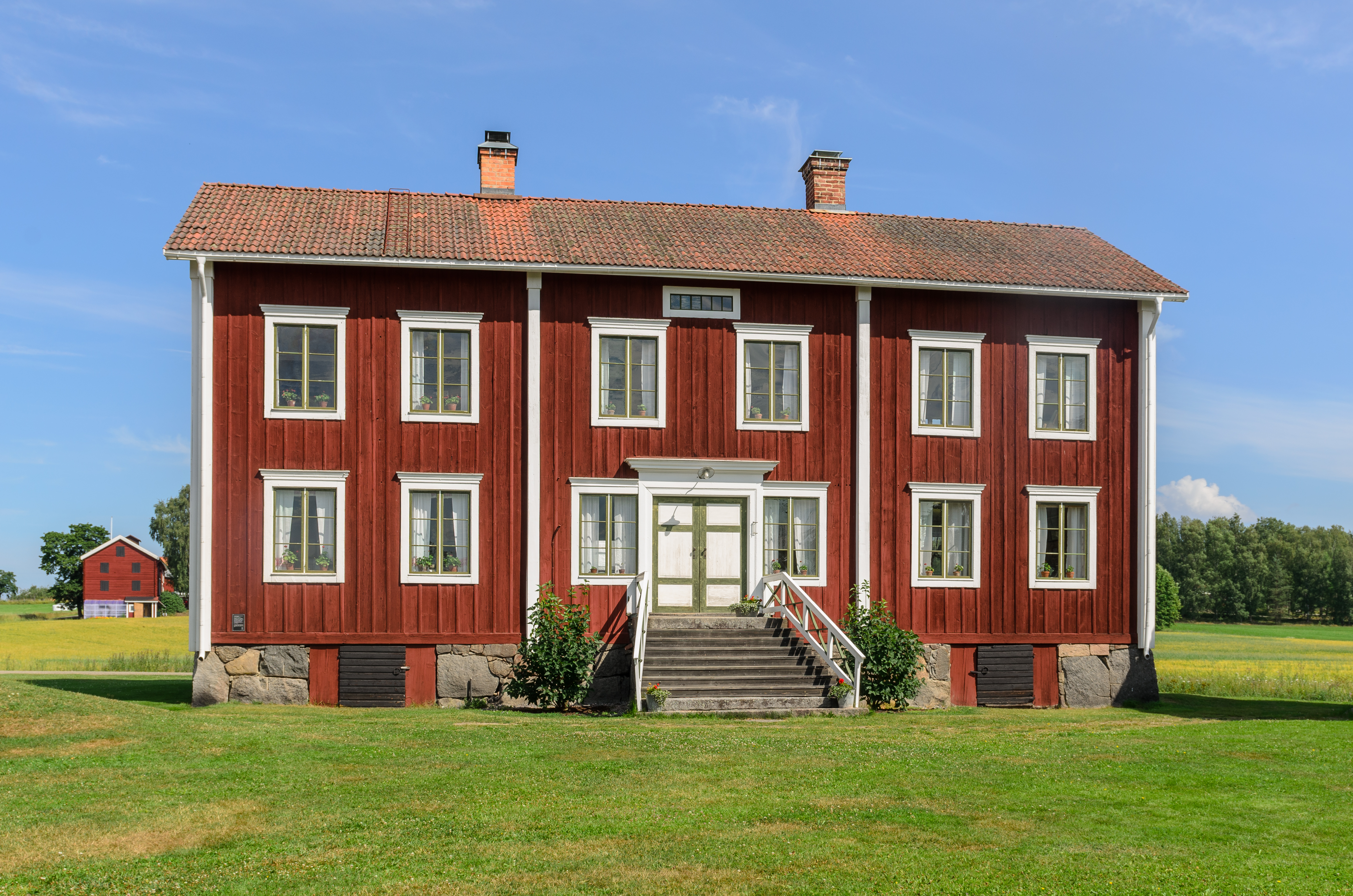 Farmhouse "Ol-Ers" in Västeräng, outside Delsbo in Hälsingland. Hälsingland is known for its magnificent farmhouses from the 1800s. Today some of the farms are part of UNESCO World Heritage Site Decorated Farmhouses of Hälsingland